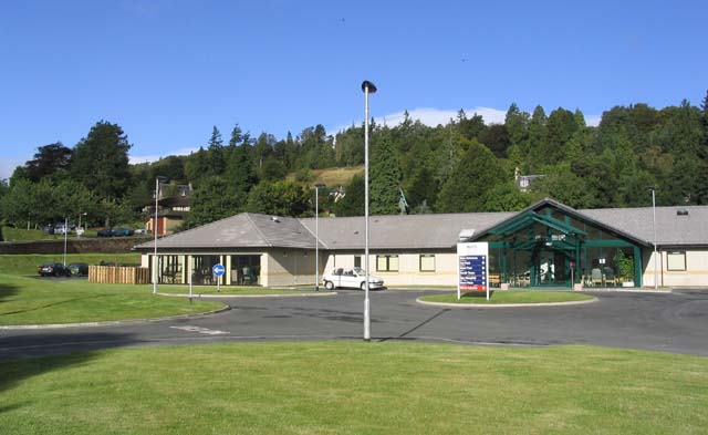 The main entrance at Hawick Community Hospital This new hospital, operational in July 2005, replaced a 19th century cottage hospital on a restricted site and brought Hawick's other day hospitals onto one site. It stands on the former Victoria Mills site in Victoria Road. The facilities include: Inpatient (24 beds), Rehabilitation, Dental Surgeries, Palliative Care and Day Units.